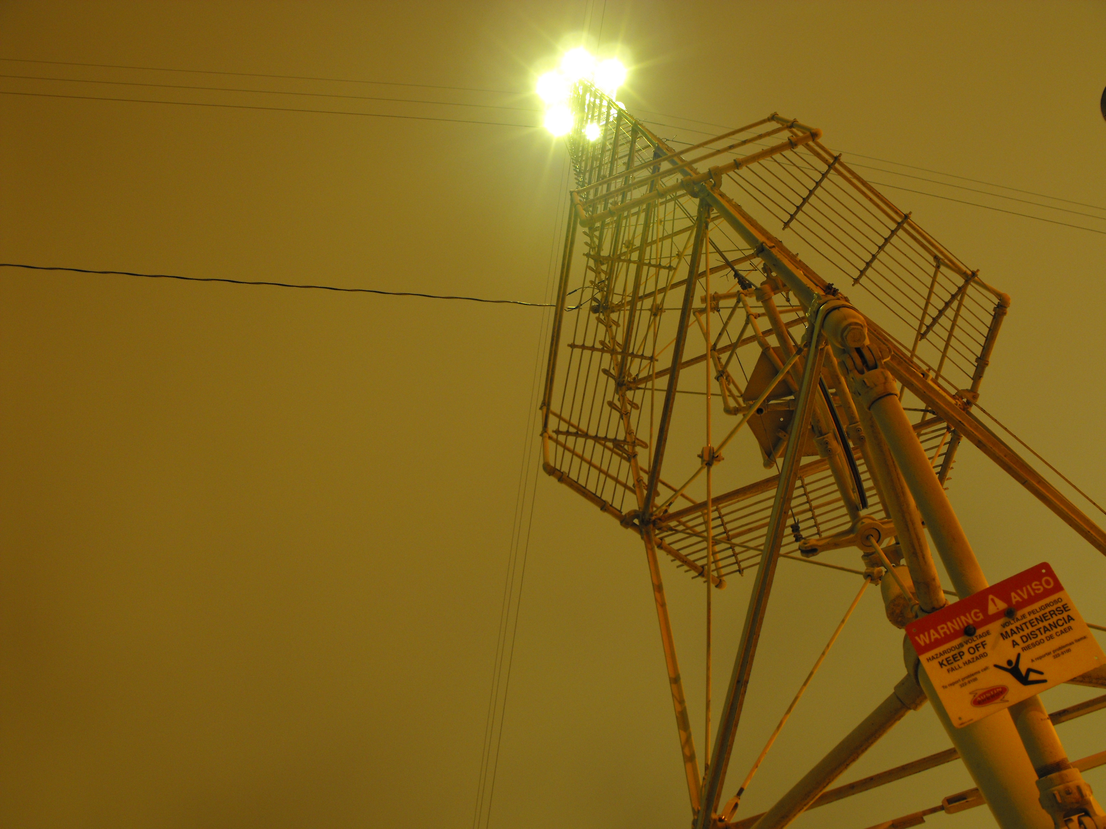 One of Austin, Texas' special artificial moonlight towers, built in the late 19th century. This one is located at 8th Street and Rio Grande Street.